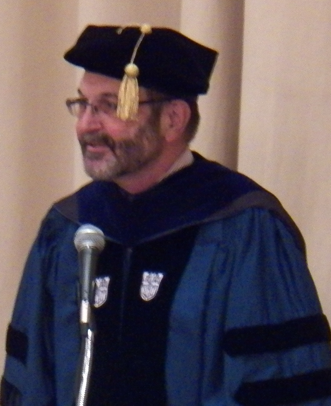 Roosevelt University president Charles R. Middleton speaks at the inauguration of the 14th president of Shimer College in Chicago, Susan Henking.